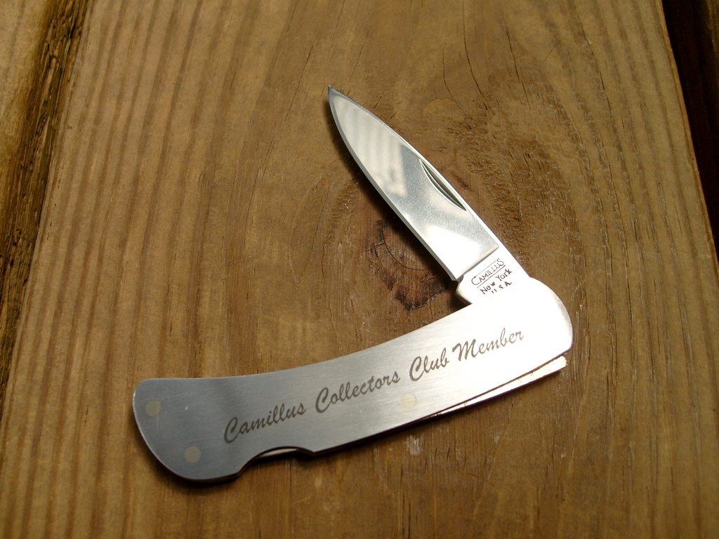 Made in the U.S.A.